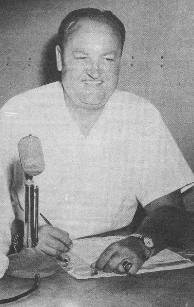 Detroit Tigers sports broadcaster Van Patrick.